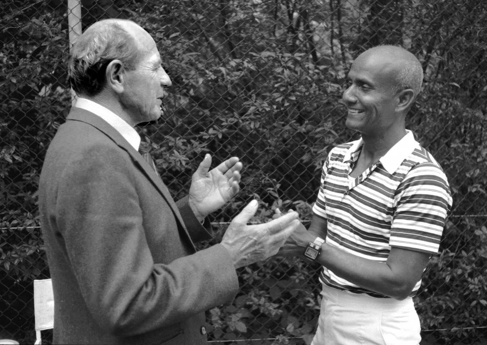 During June 1980 Sri Chinmoy met Emil Zatopek at a race in Switzerland organised by Sri Chinmoy Marathon Team.